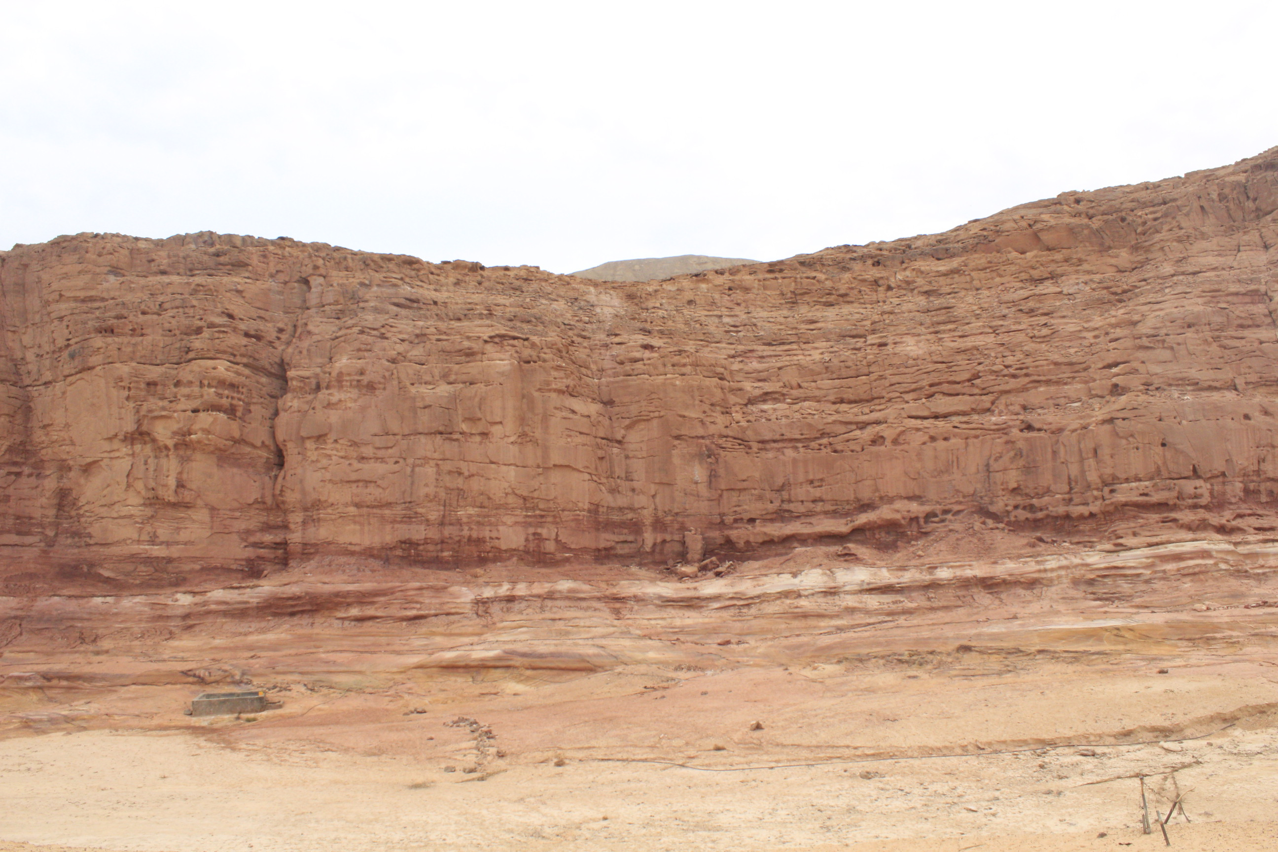 Wadi Ghazal, Sinai